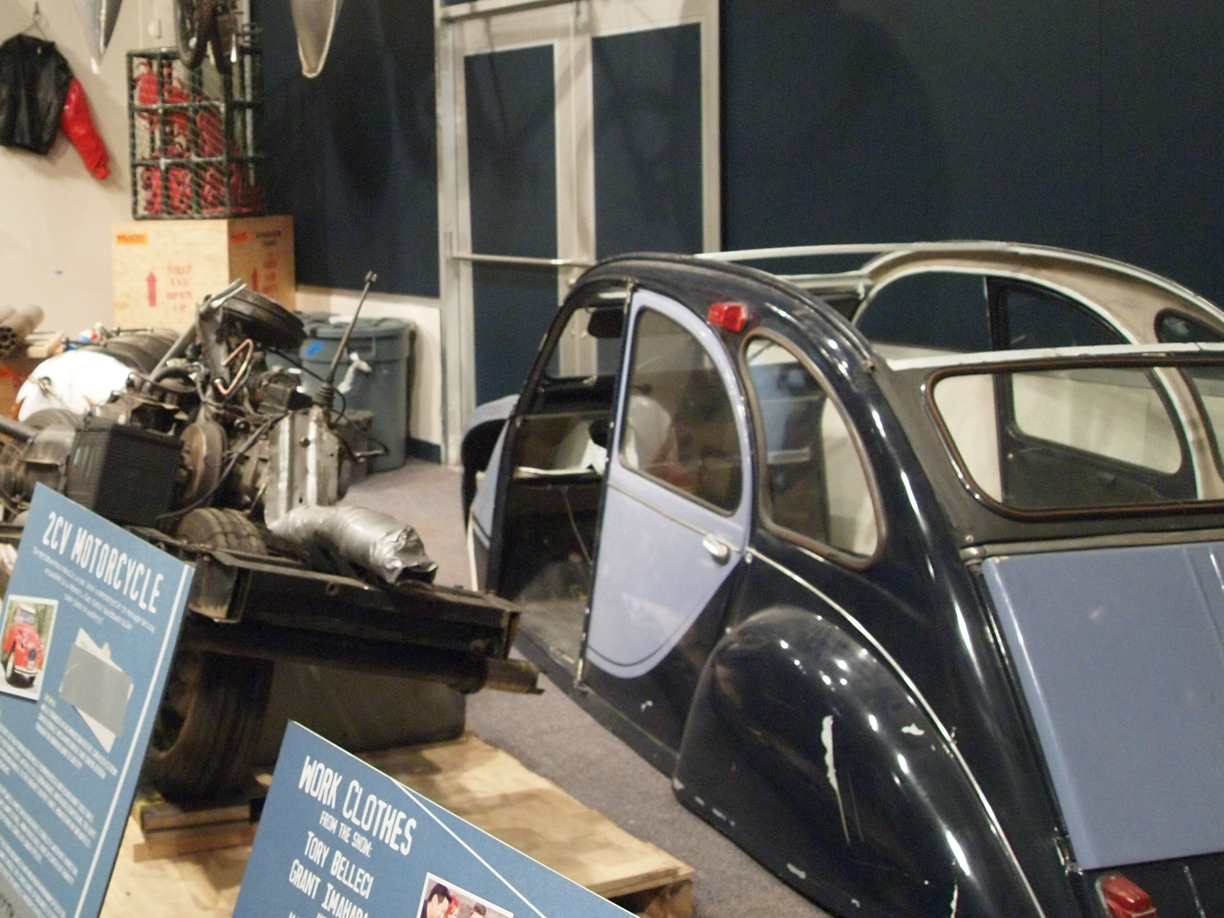 MythBusters 2CV Motocycle